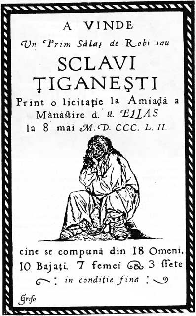 A Romanian-language poster advertising the sale of Romani slaves which includes 18 men, 10 boys, 7 women, and 3 girls. Bucharest, 1852.